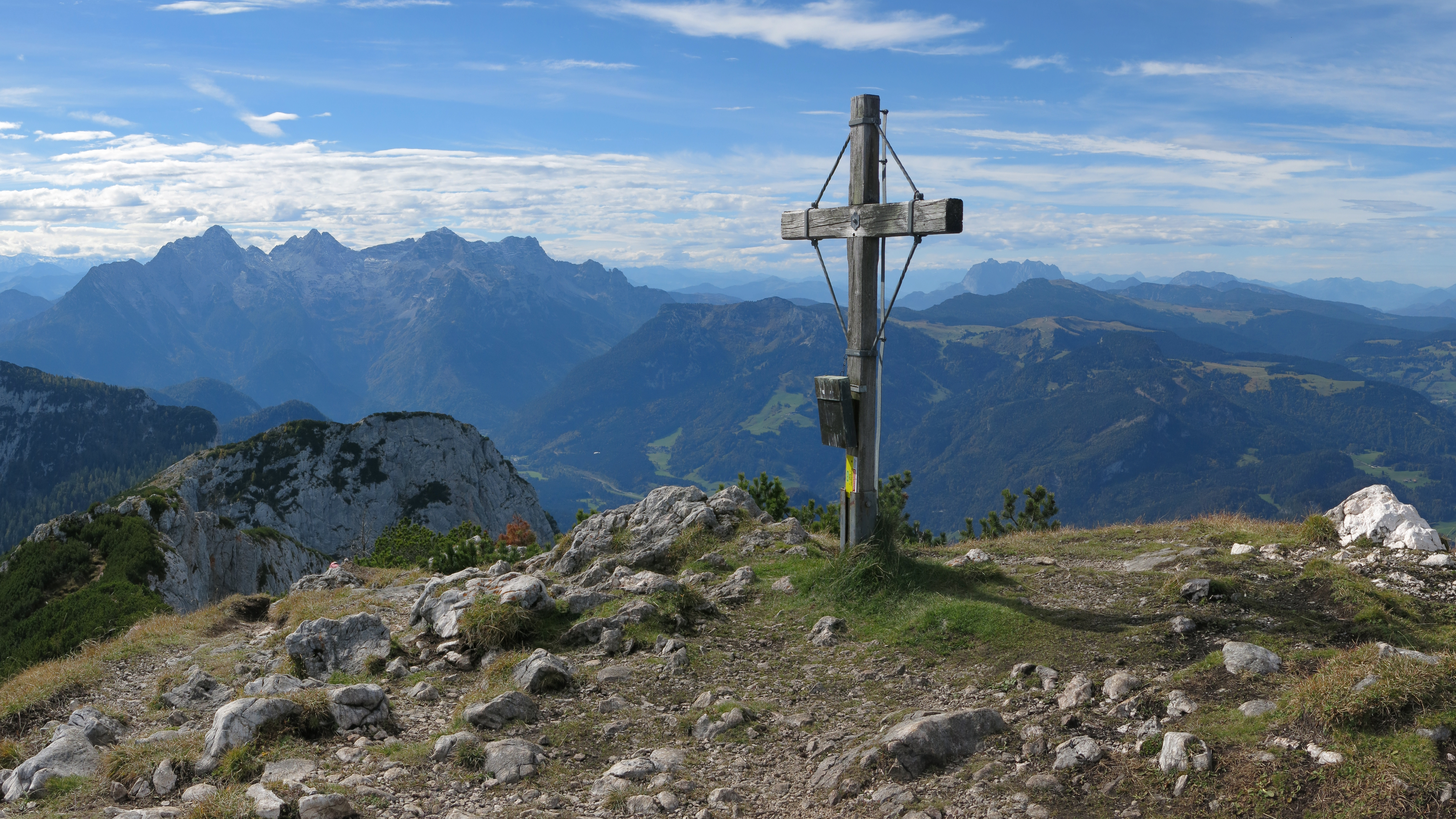 Summit cross on the Großer Weitschartenkopf on the Reiter Alm in the Berchtesgaden Alps